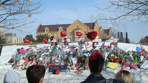 Created by Myself- Alex Kriegsmann